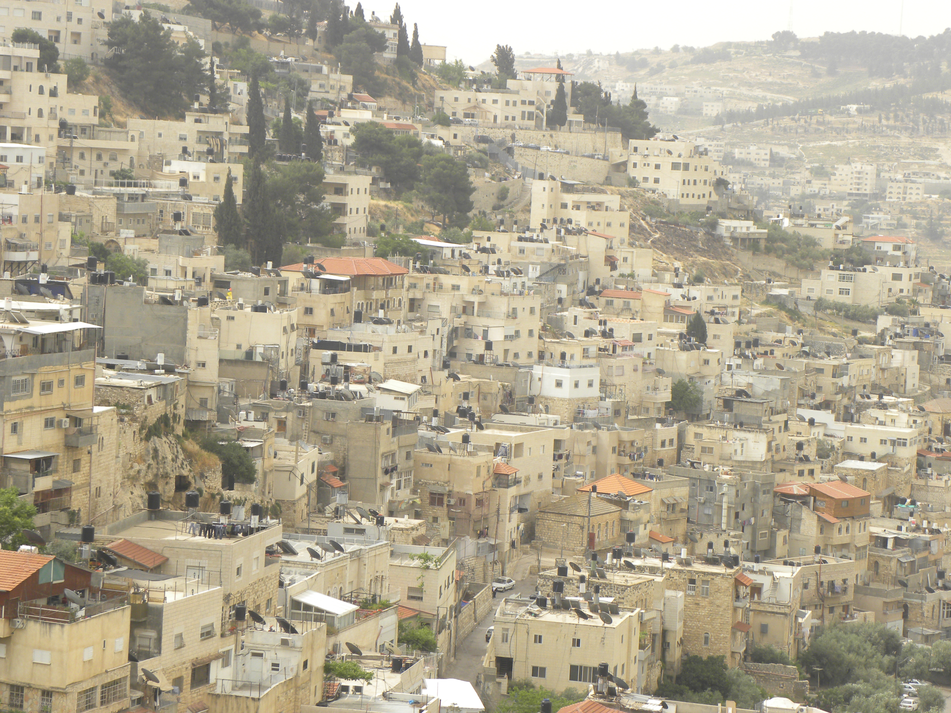 Kidron Valley.